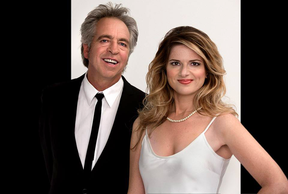 Rockwiz Hosts Julia Zemiro and Brian Nankervis